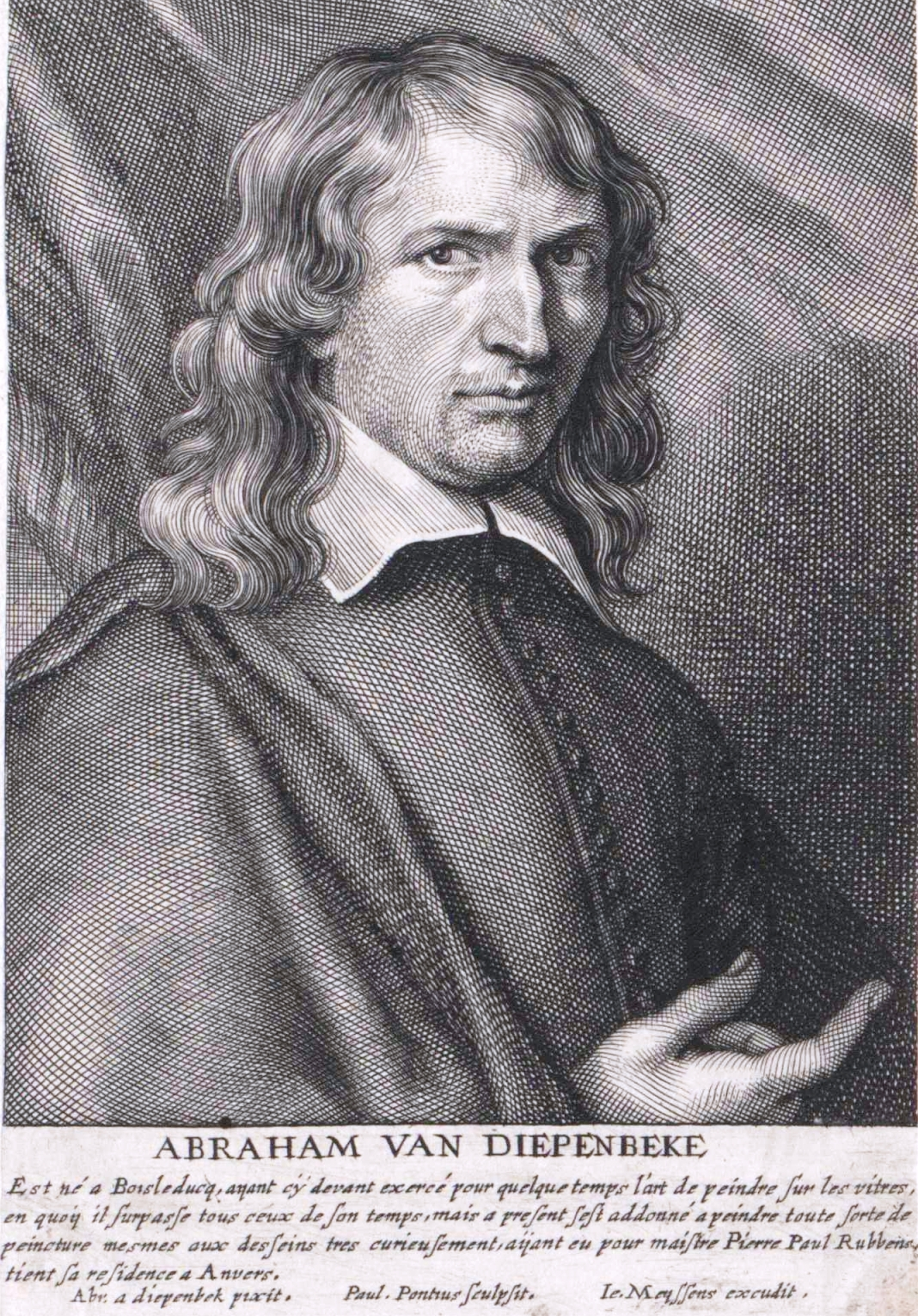 Portrait of Abraham van Diepenbeeck in Cornelis de Bie's Gulden Cabinet.